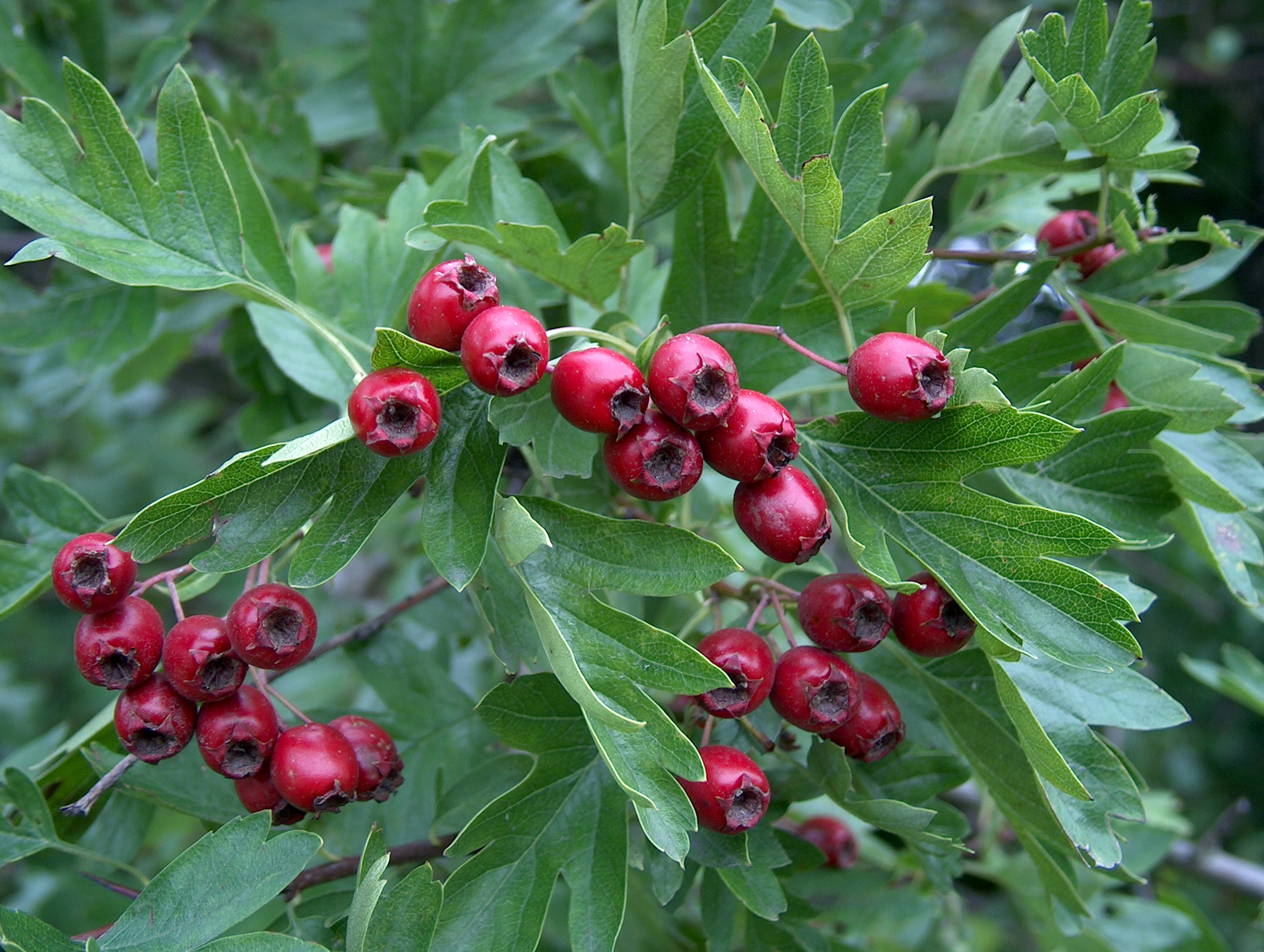 Crataegus rhipidophylla in Tallinn, Estonia